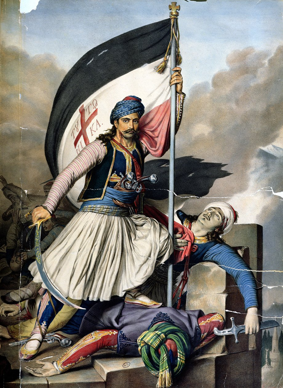 Un Grec arborant son étendard sur les murs de Salone ("N. Mitropoulos hoists the flag at Salona". Scene from the early stages of the Greek War of Independence).